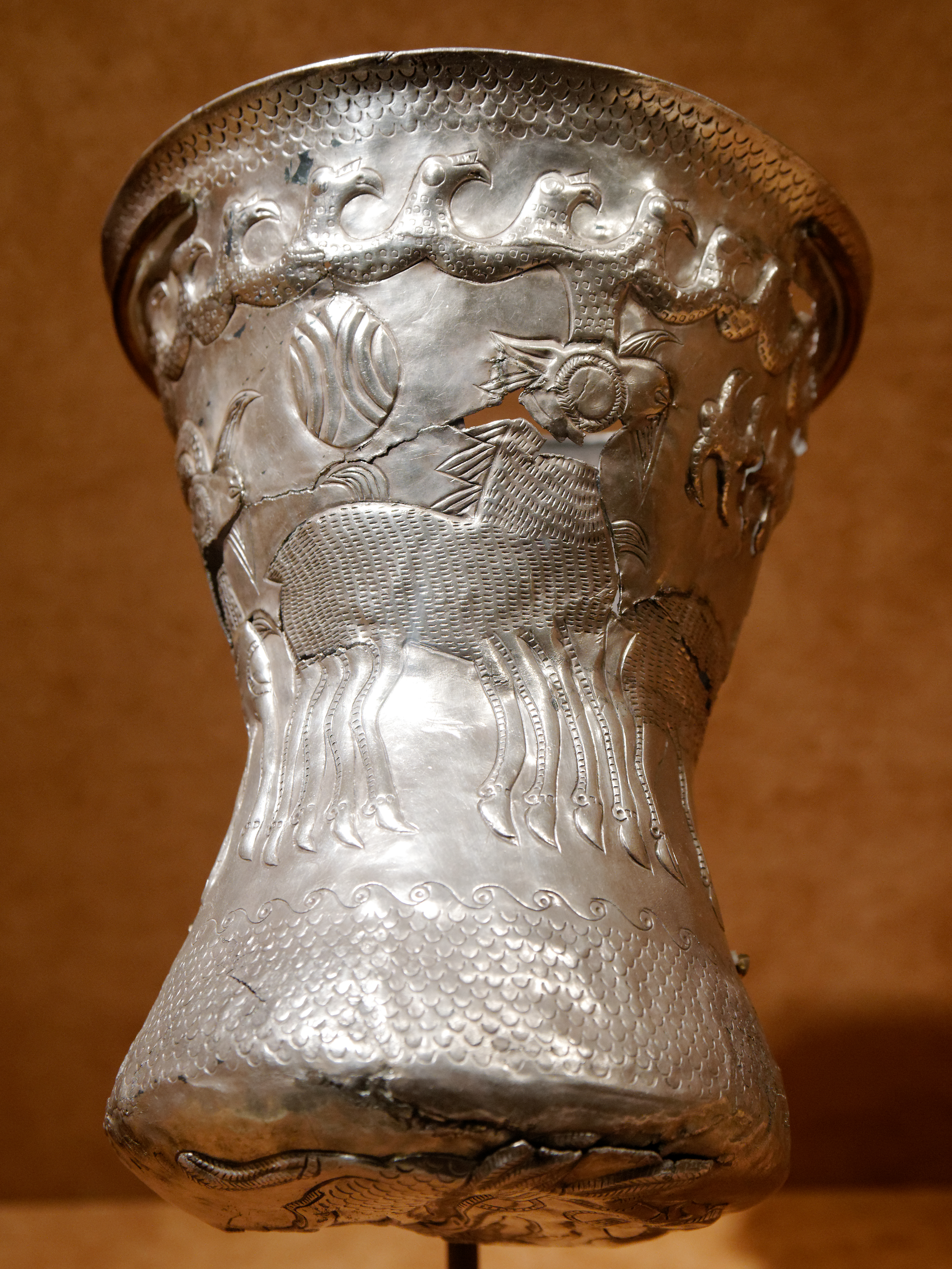 Beaker with birds and animals, Thraco-Getian artwork.